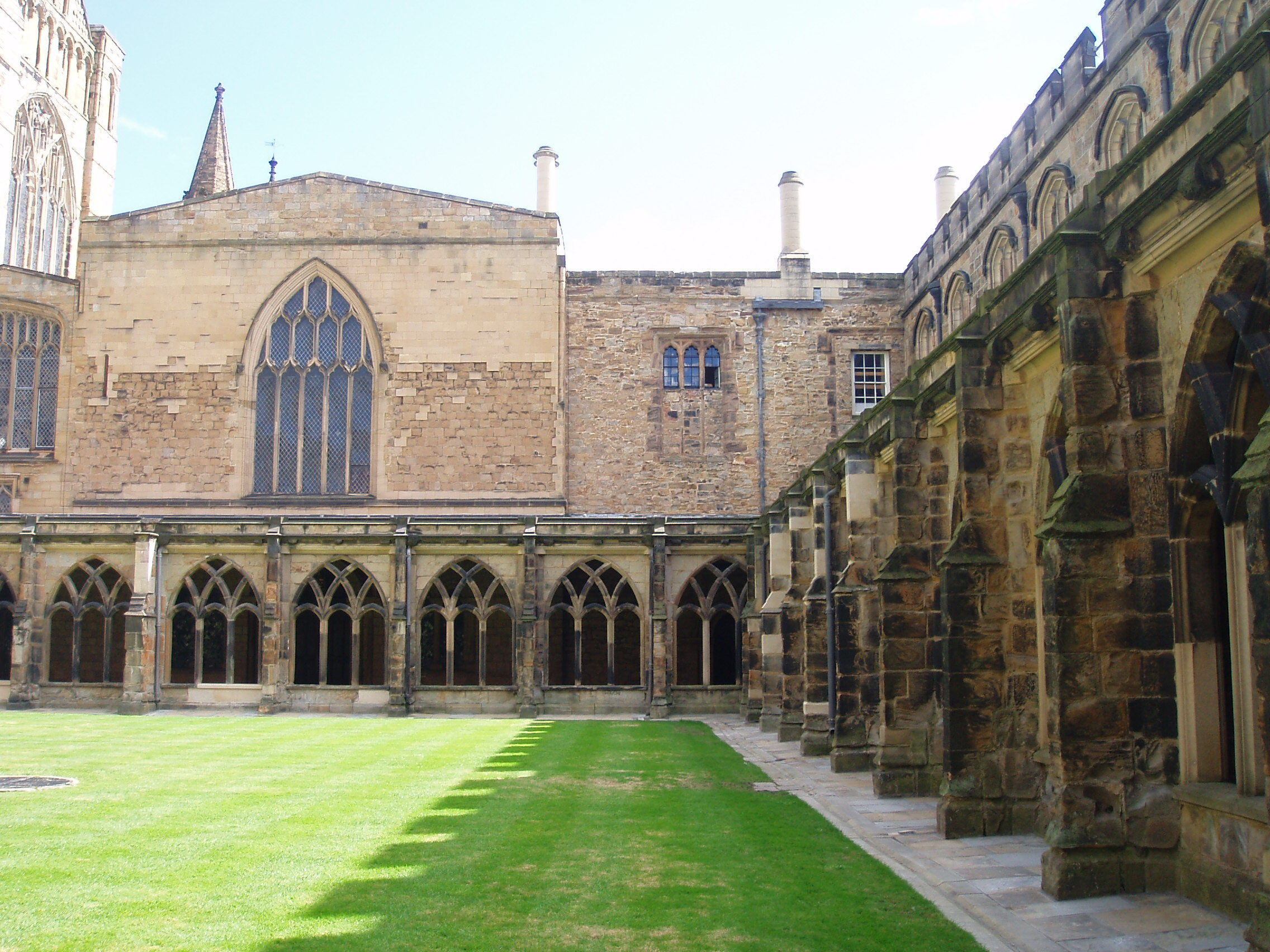 A view of Durham Cathedral cloisters. Precise identification of structures not yet done.